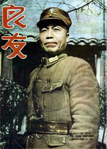 Liangyou Pictorial No. 135 cover - Li Zongren